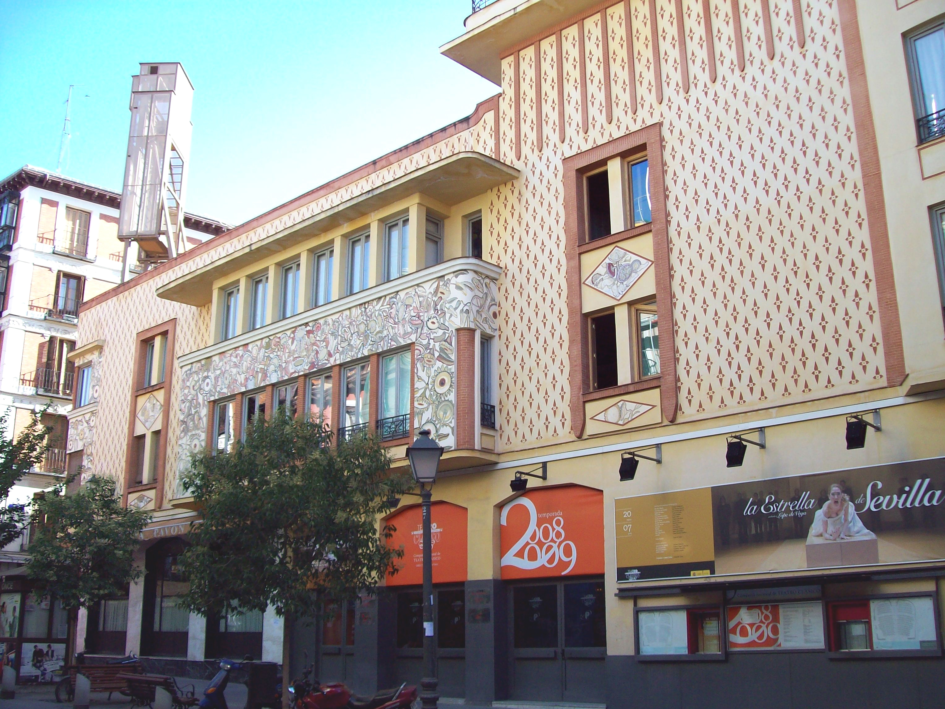 Façade of Teatro Pavón (a theater), at 9 Calle de Embajadores (street) in Centro district in Madrid (Spain). Building was projected in 1924 by architect Teodoro de Anasagasti Algán and built from 1924 to 1925.